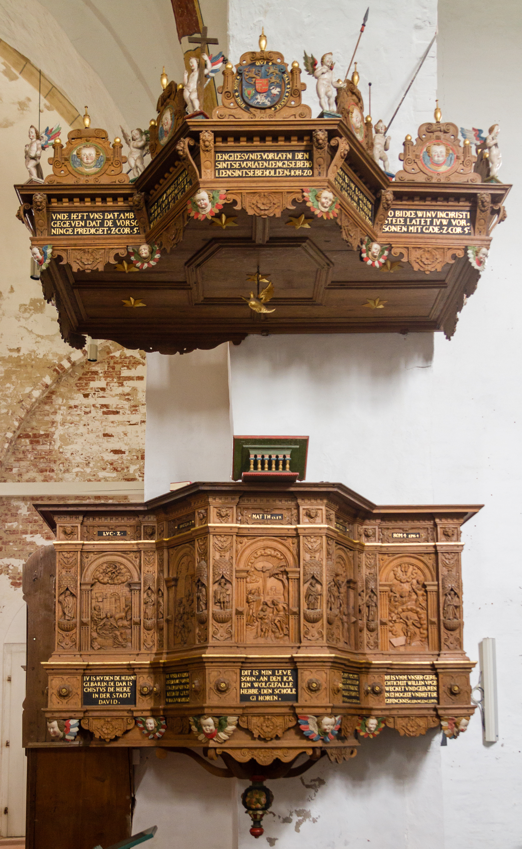 This is a photograph of an architectural monument. Designation: Church St. Johannis mit equipment Construction time: 12th century Description: The Protestant church was built in the 12th century. In the 13th century the church was extended. Inside there is a carved altar from the time around 1480. The granite baptismal font dates from the period around 1200. The pulpit was built in 1618. Category: Structural component, Material entity: Church St. Johannis Place: Municipality Nieblum, Collective municipality Föhr-Amrum, District Nordfriesland, Schleswig-Holstein, Germany Location: Karkstieg